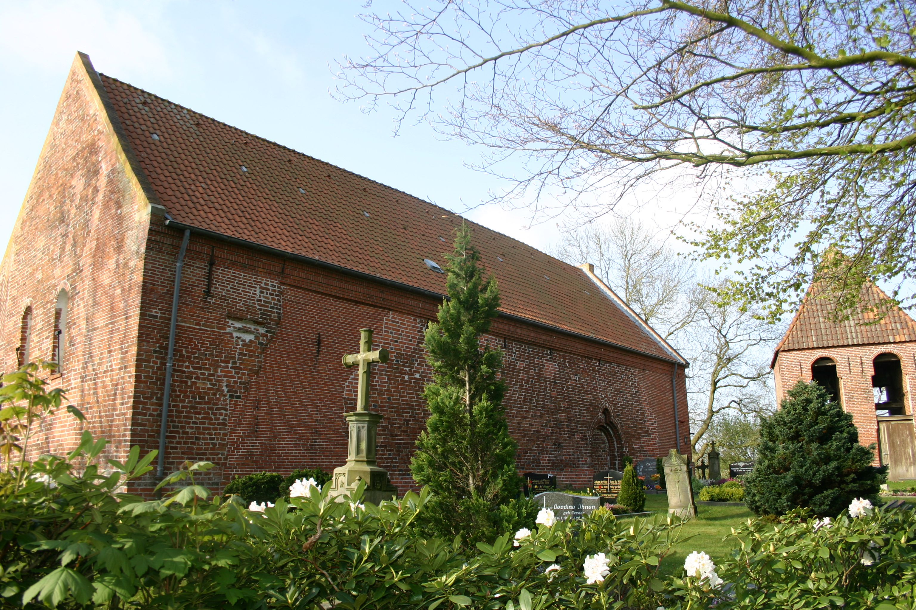 Historic church in Bangstede, district of Aurich, East Frisia